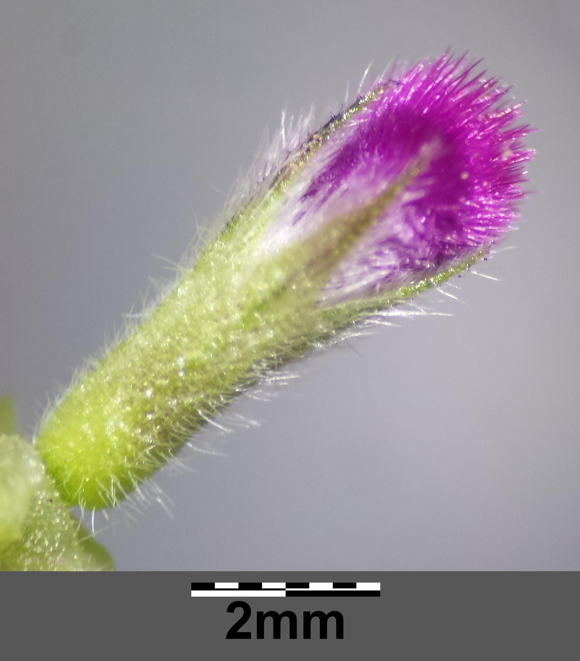 Bud/cleistogamous flower Taxonym: Lamium amplexicaule ss Fischer et al. EfÖLS 2008 ISBN 978-3-85474-187-9 Location: near Alte Schanzen, Floridsdorf, Vienna - ca. 225 m a.s.l. Habitat: wine yard